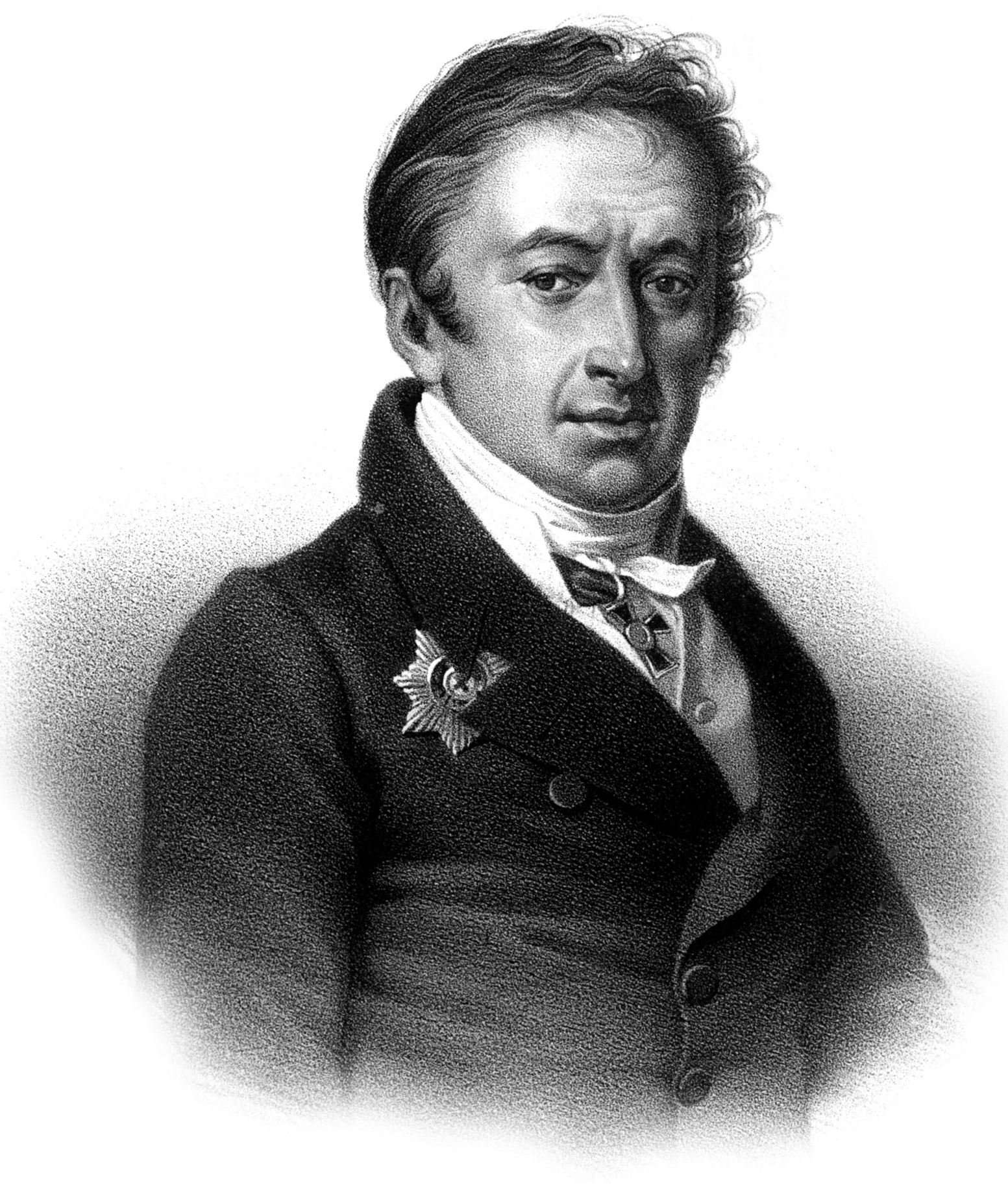 Russian writer and historian Nikolay Karamzin (1766-1826). Cropped from a carte de visite.